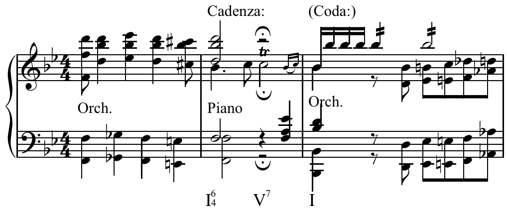 Cadenza from Mozart's Piano Concert in B♭ major K. 595, first movement.